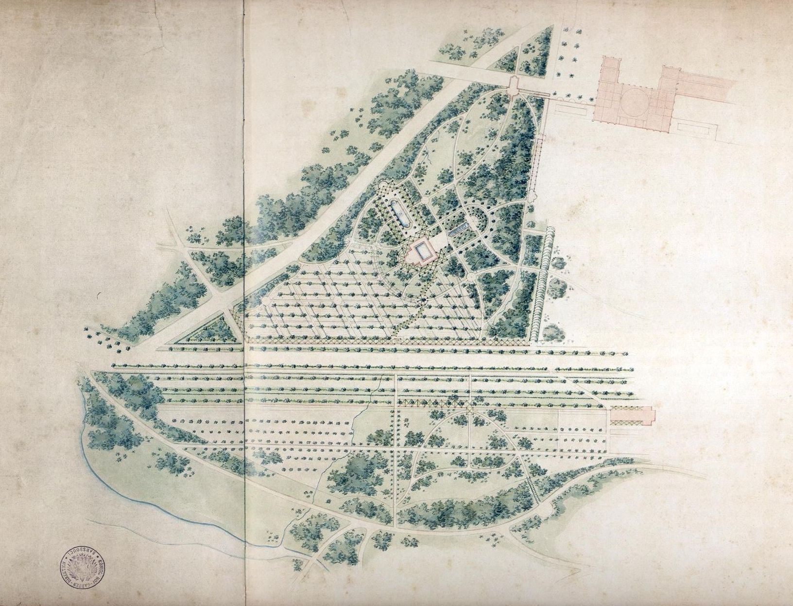 The 'Paradise Garden' at Sanssouci Palace. Since 1950 the Botanical Garden Potsdam, Germany).